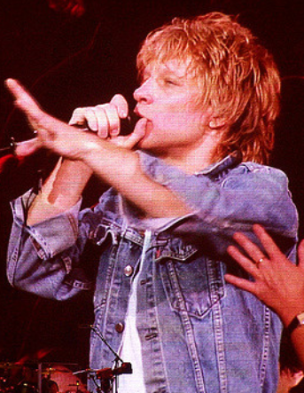 Jon Bon Jovi in concert in 2003.